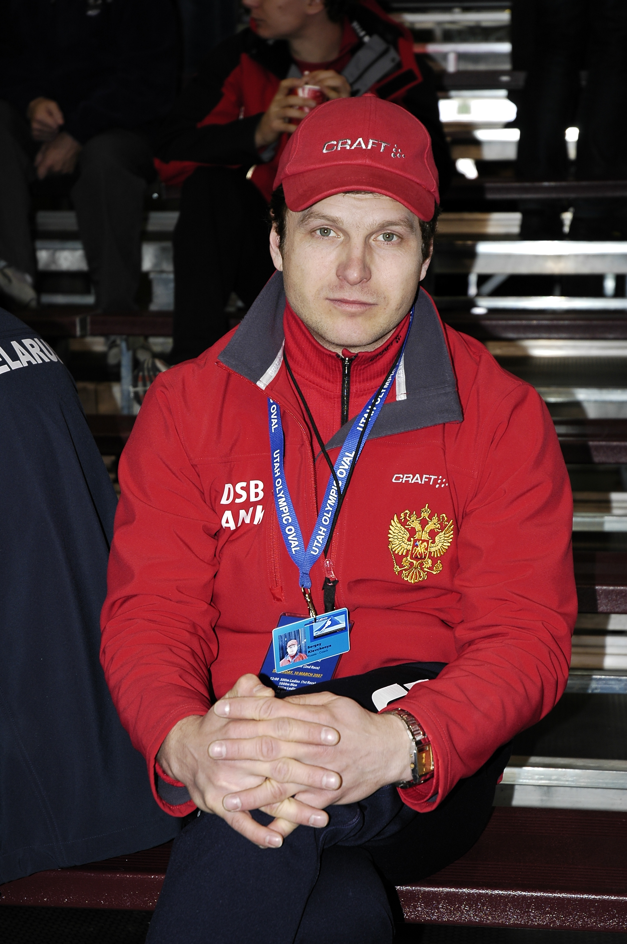 Sergej Klevtsjenja is a former speedskater from Russia